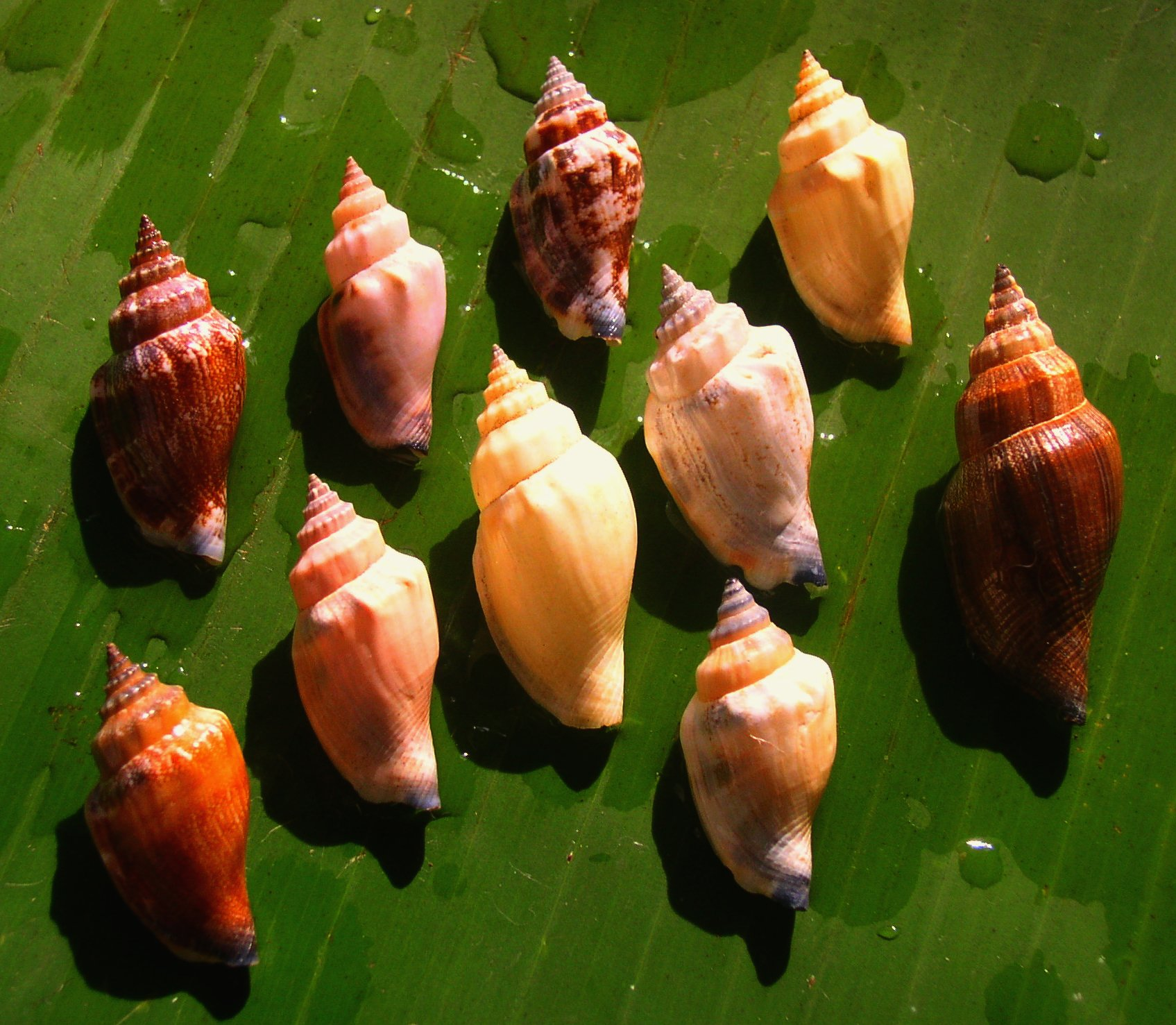 Canarium urceus (Linnaeus, 1758) Palawan, because of the extensive sand and coral flats off its East side, has a lot of these, in a range of colours. Some may be of different species, but I can't be bothered just now to sort them out. They use their 'foot' to jump out of the sand.